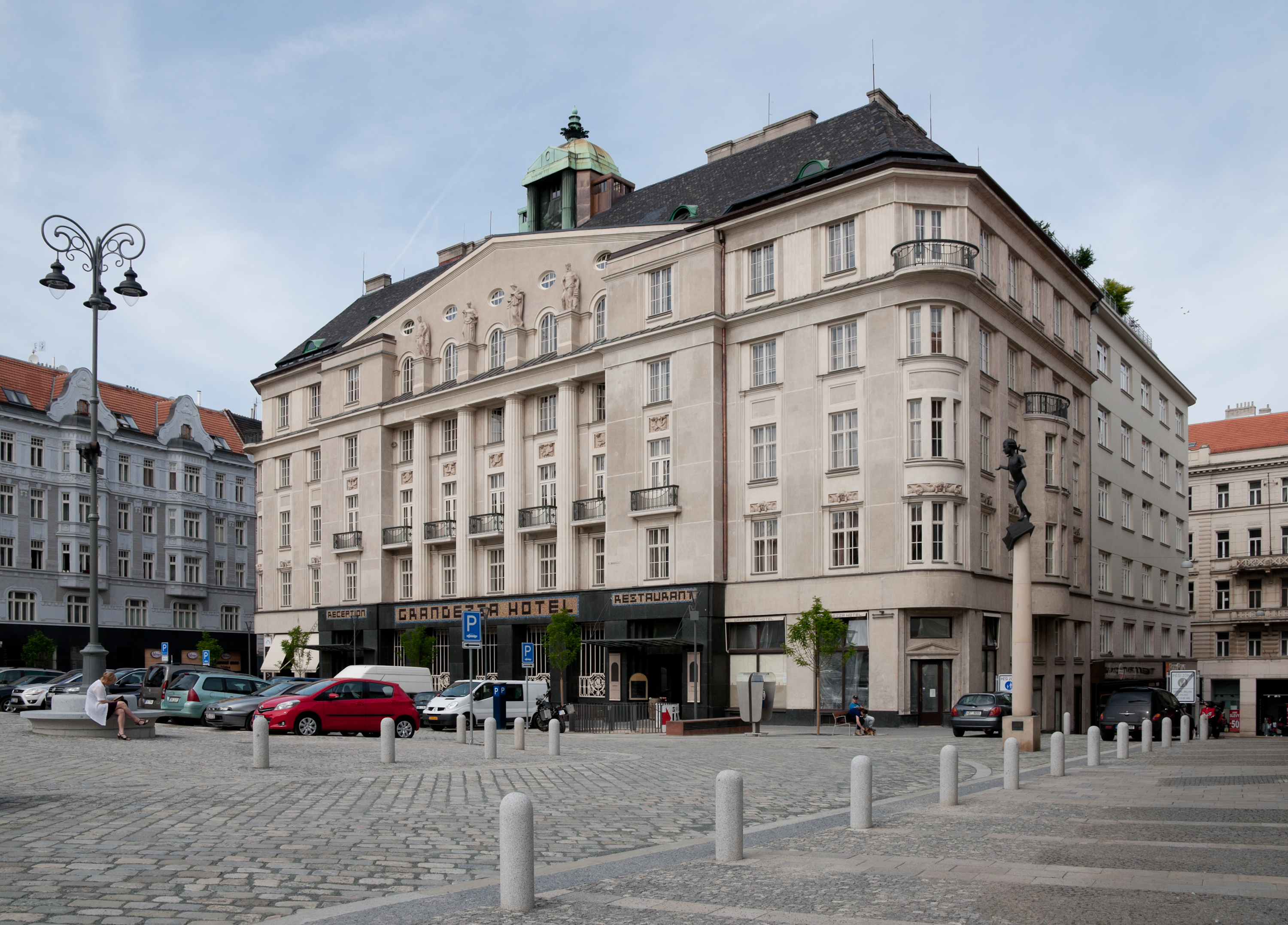 Hotel Grandezza in Brno, Czech Republic.